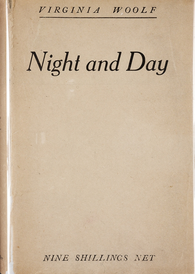 First edition UK cover of Night and Day